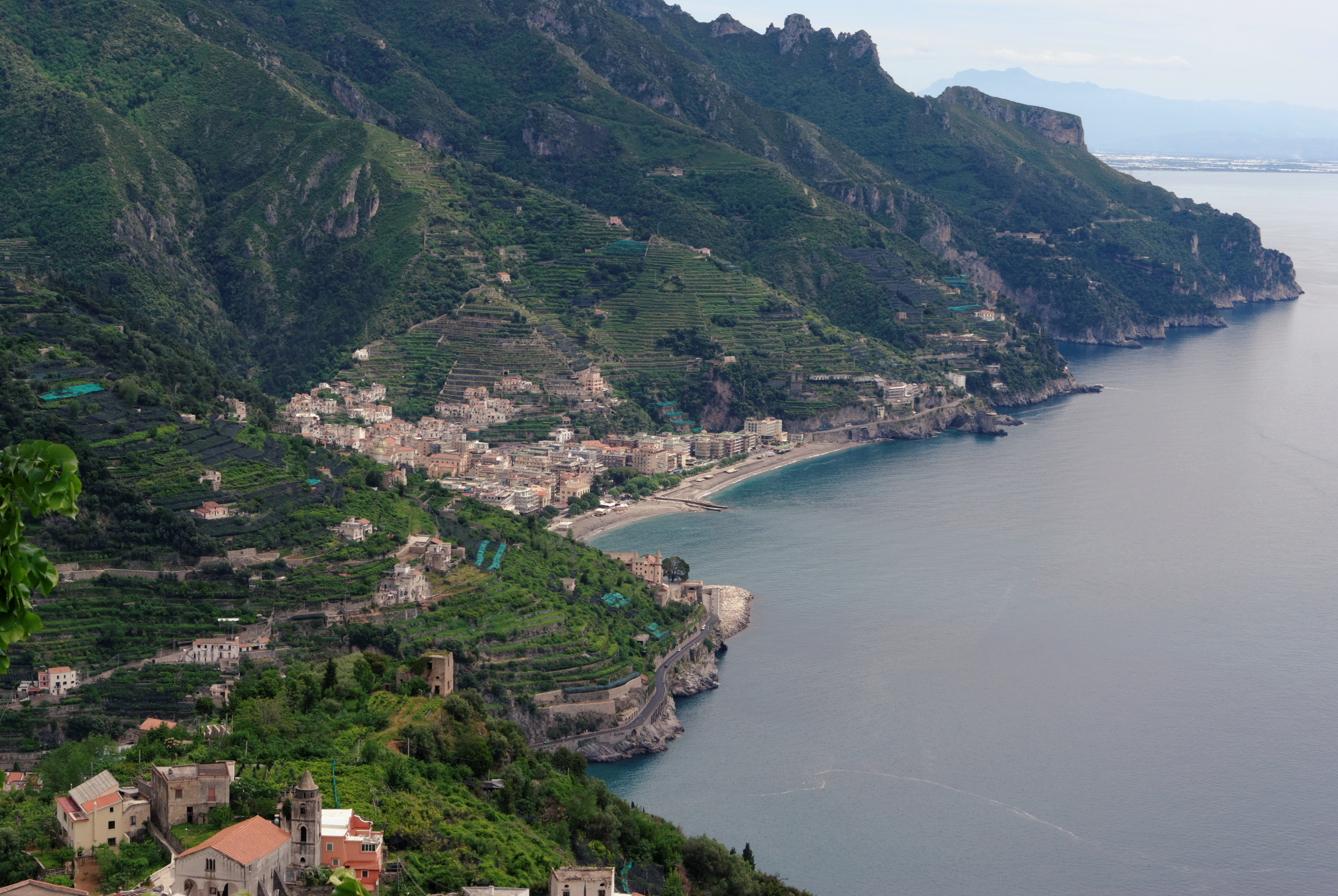 Ravello, view to Maiori